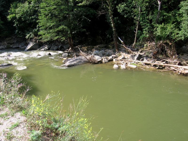 River Chaya (Tschaja), Bulgaria.